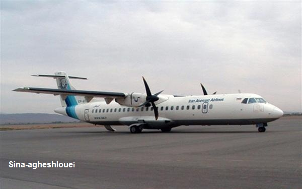 atr aseman